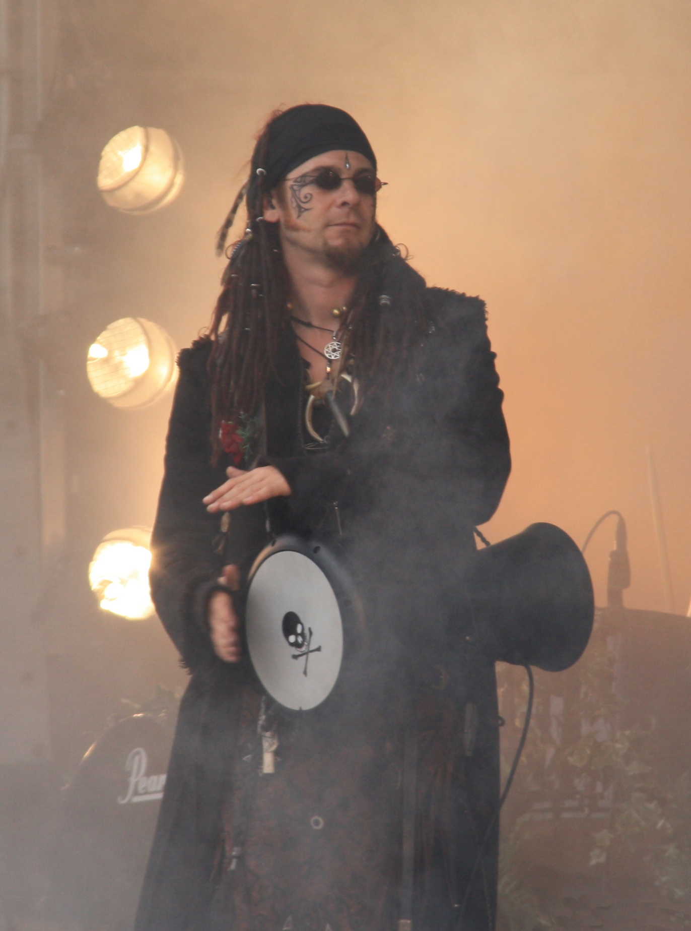 Omnia at Castlefest 2009